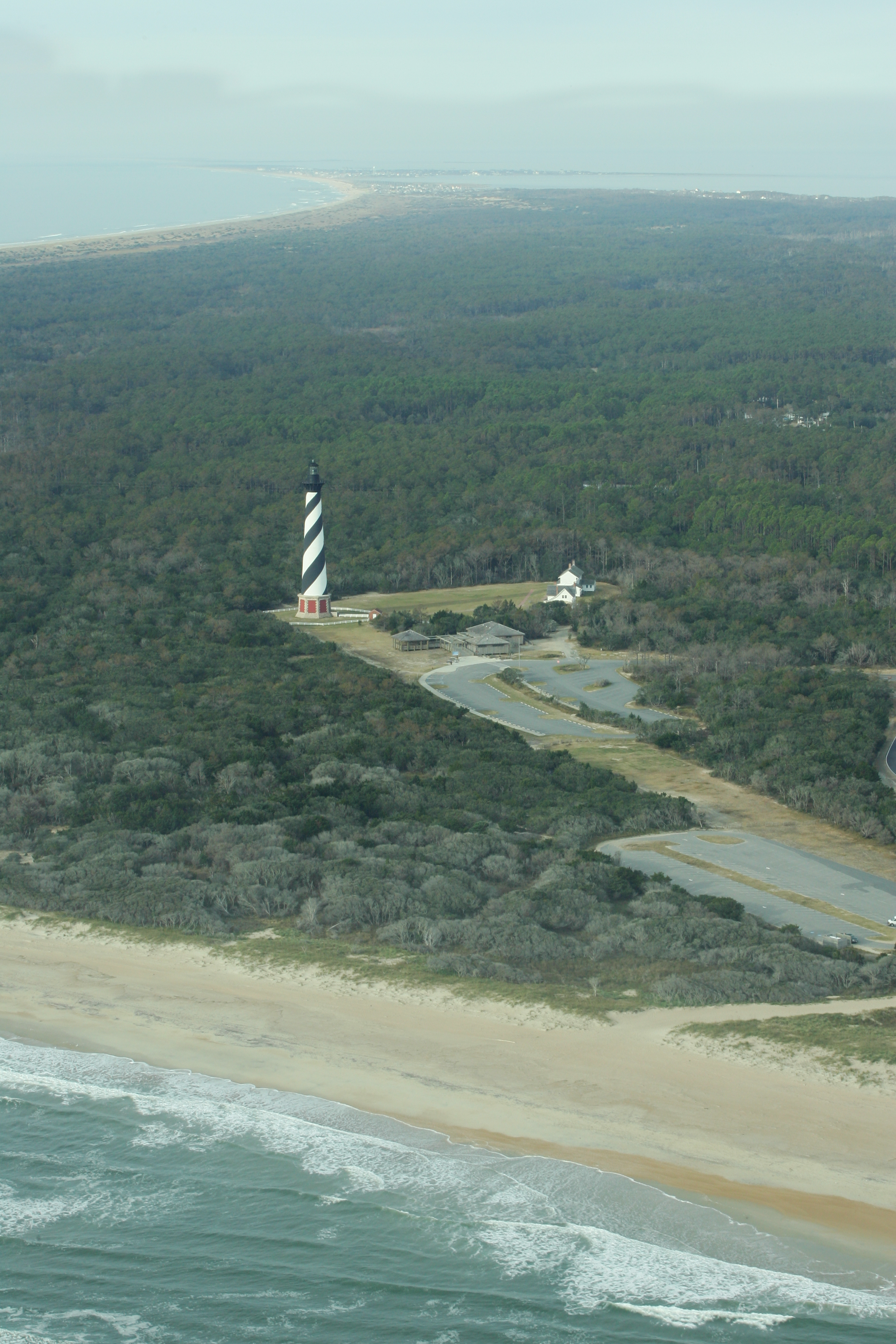 Lighthouse at Cape Hatteras National Seashore. NPS/Michael B. Edwards